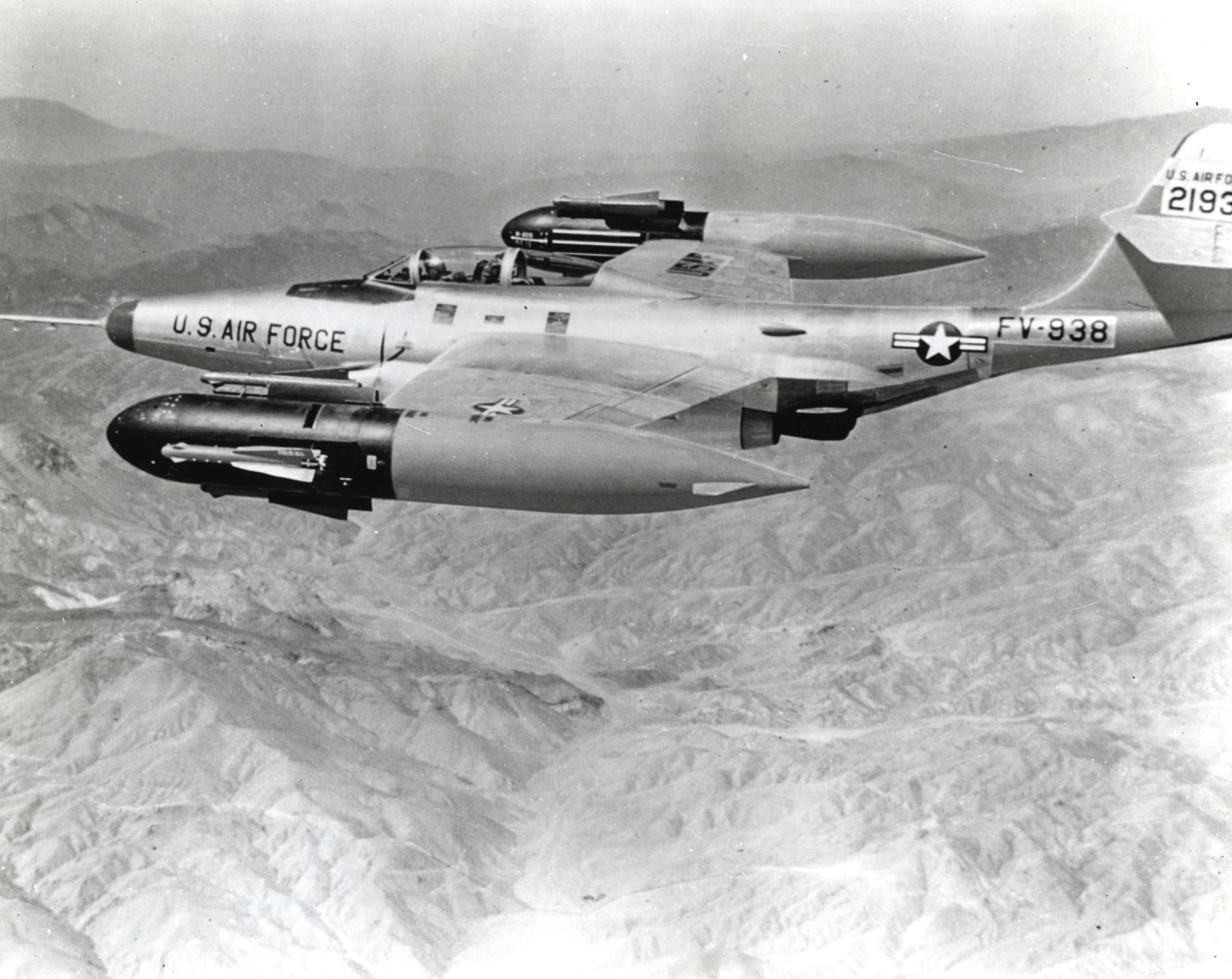 Northrop F-89H (S/N 52-1938) with AIM-4 Falcon missiles.